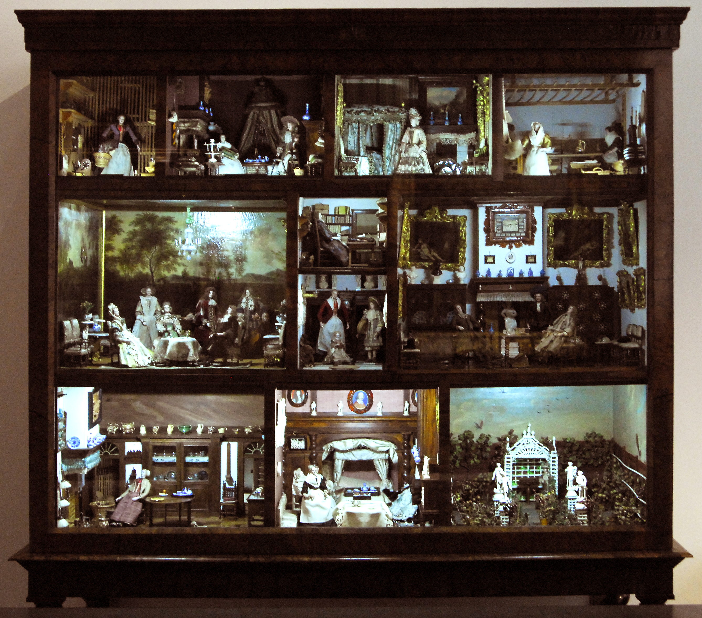 Doll's house from Petronella de la Court (Amsterdam 1670-1690) in the Centraal Museum, Utrecht - The Netherlands.